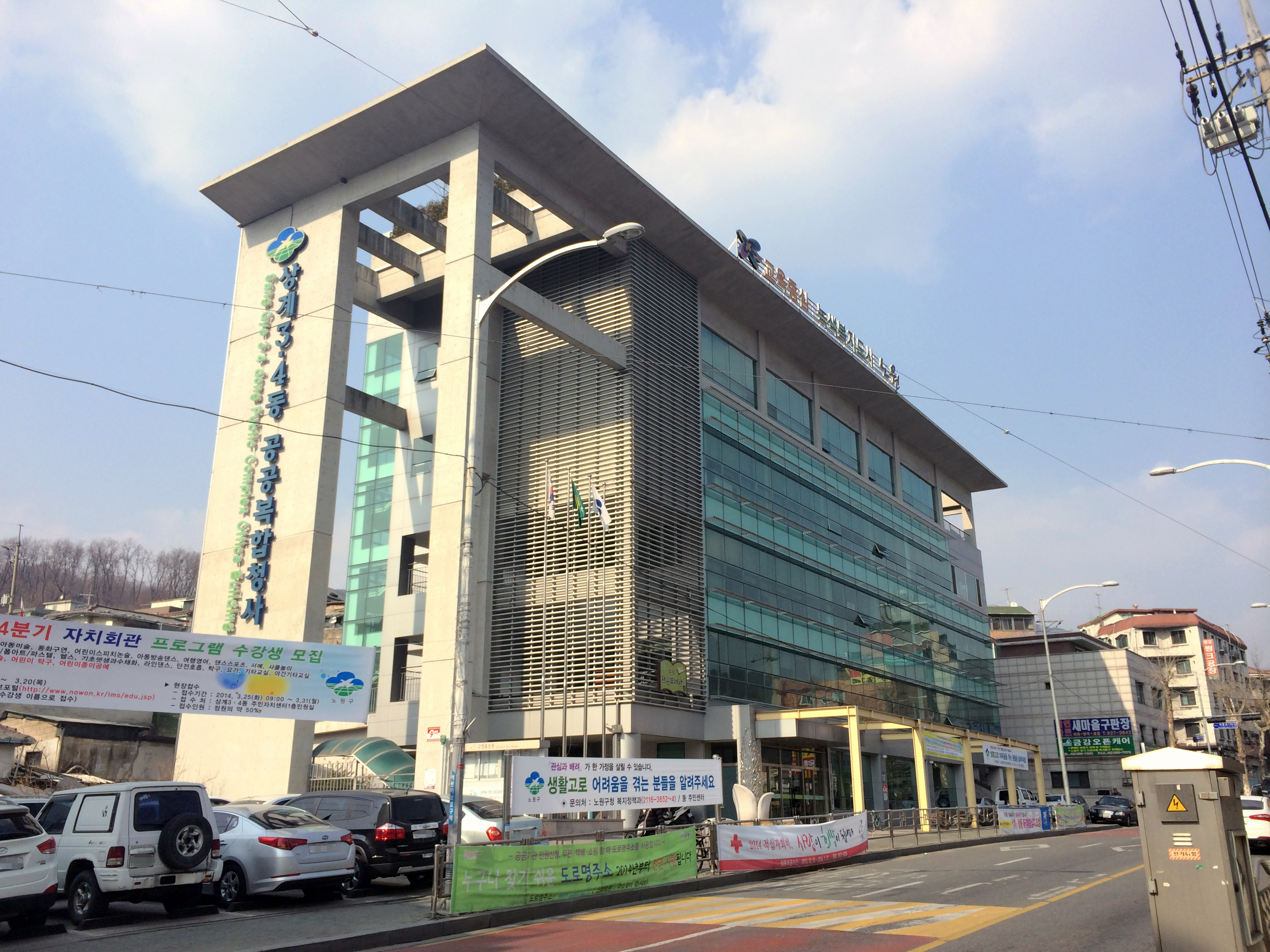 Sanggye 3, 4-dong Comunity Service Center (Nowon-gu)